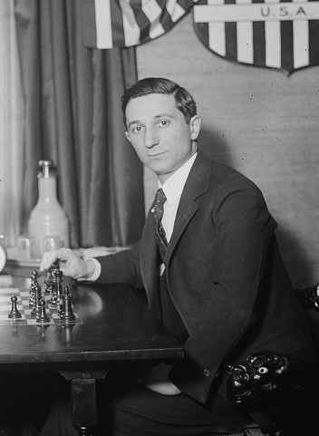 Edward Lasker (1885-1981) (New York, 1924)